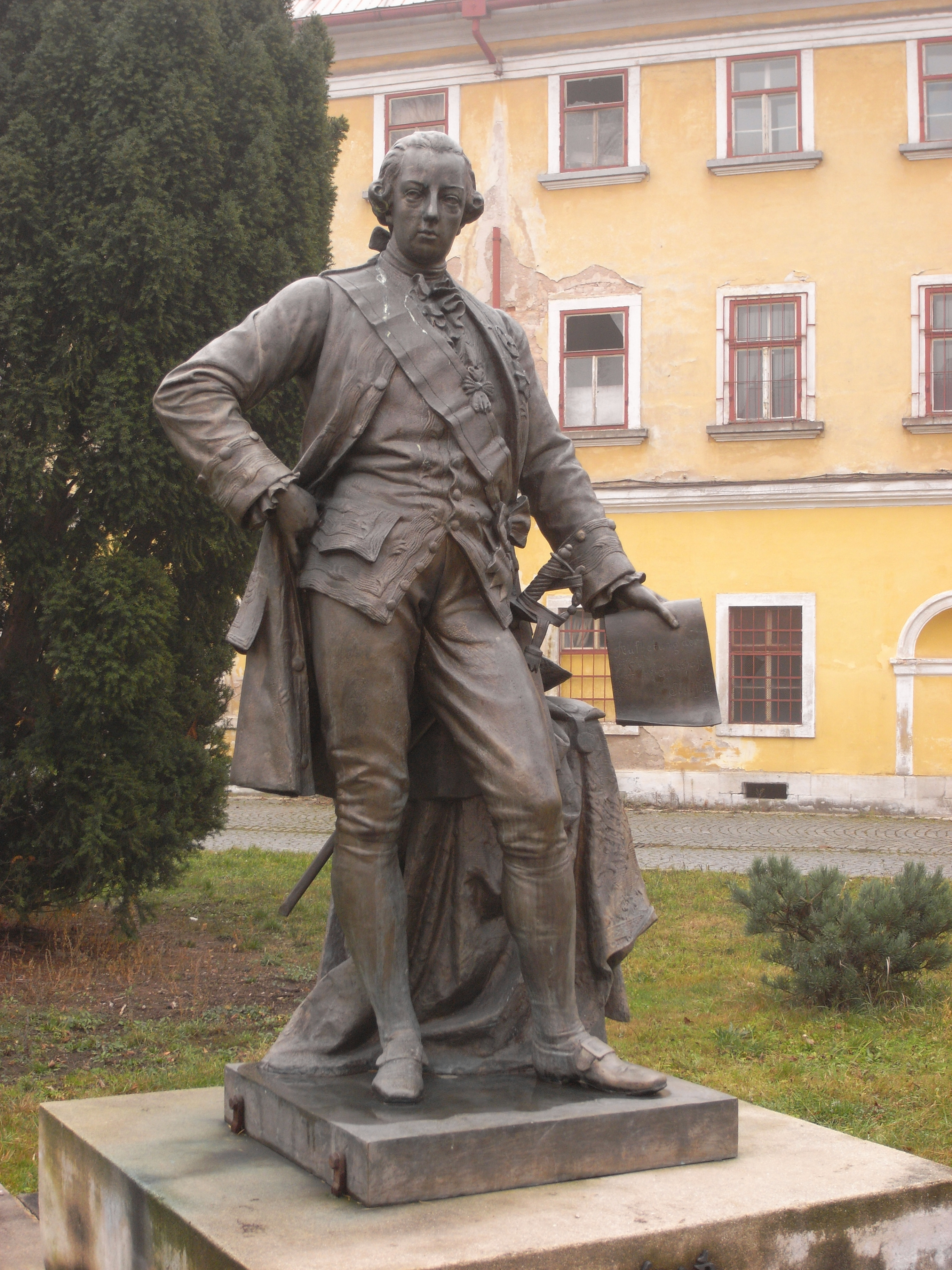 emperor Josef II. (1765–1790) (statue of fortress Josefov, Jaroměř, Czech Republic)